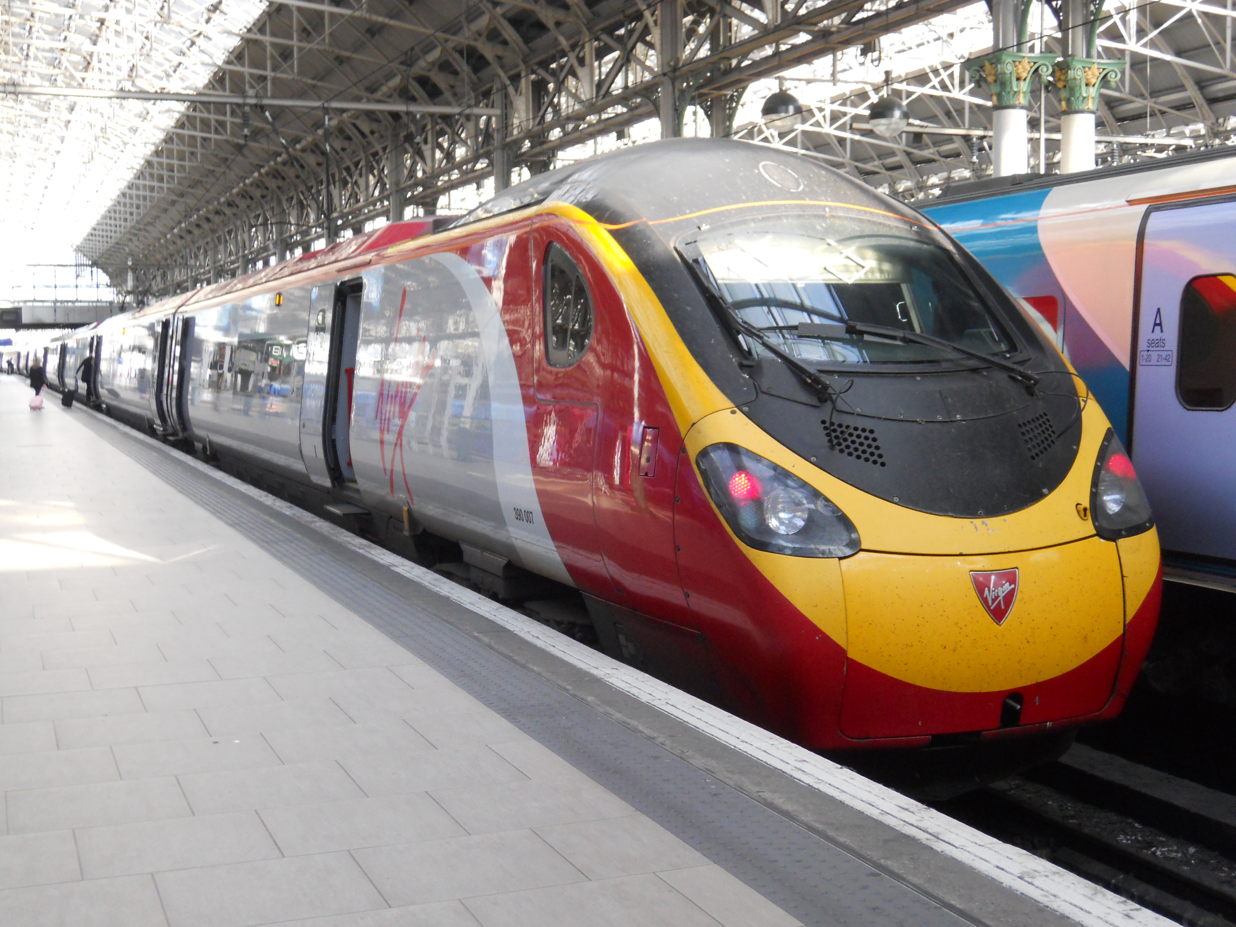 390 007 bound for London Euston, taken on Monday 8th August at Piccadilly Station